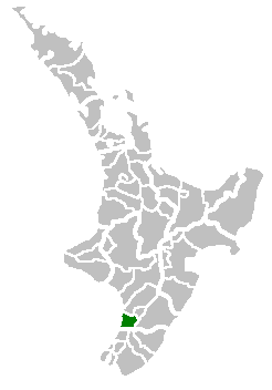 Location of Horowhenua District.